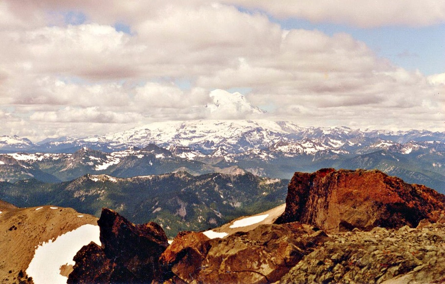 Mount Aix summit view looking west to Mount Rainier